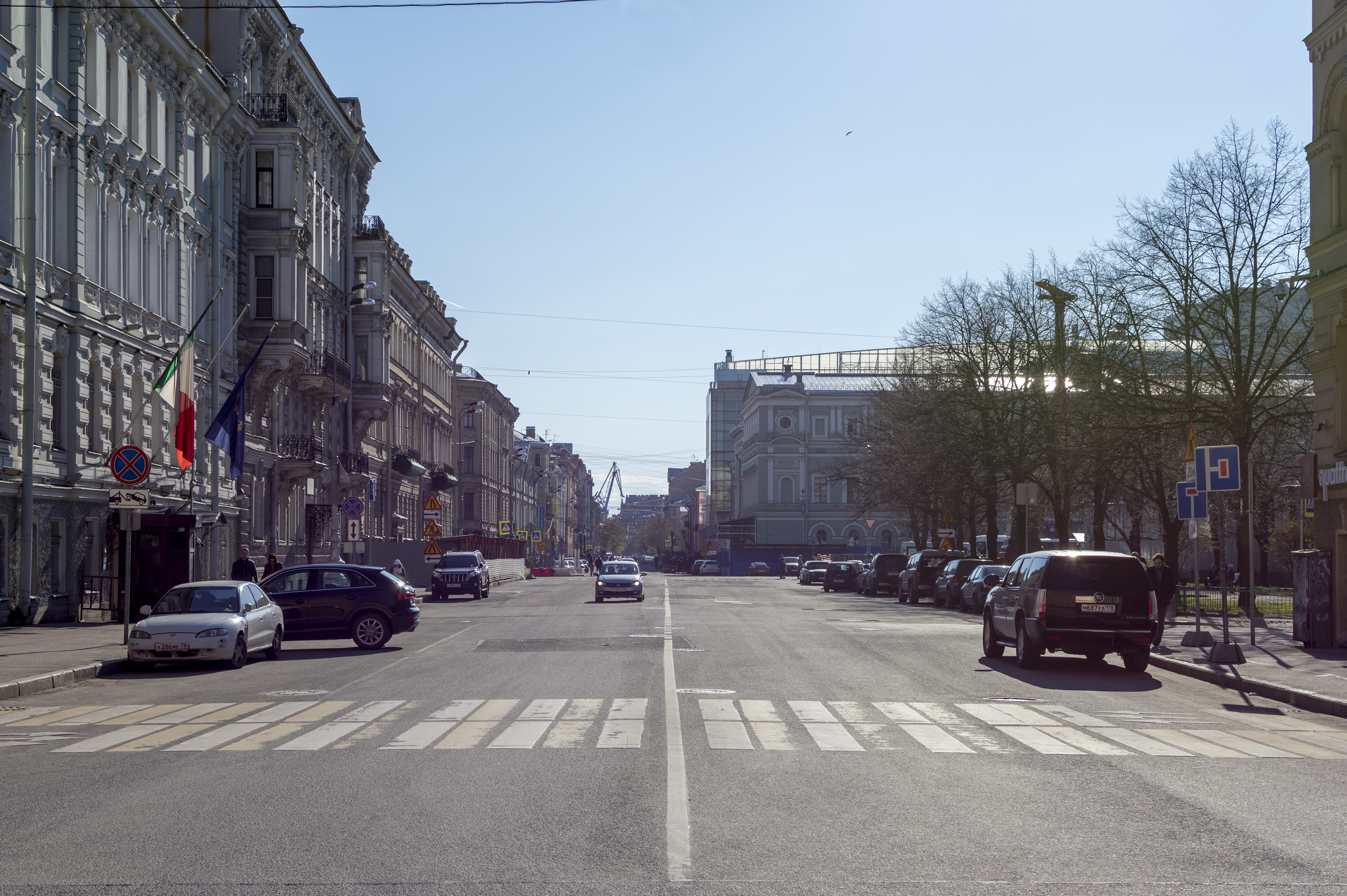 Teatralnaya Square in Saint Petersburg